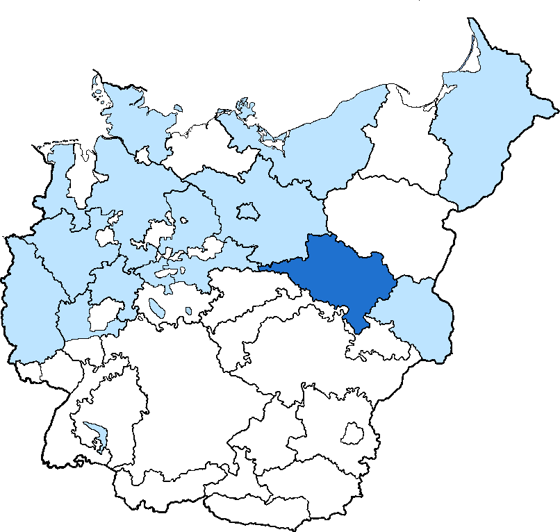 Location of the Province of Lower Silesia in the Free State of Prussia